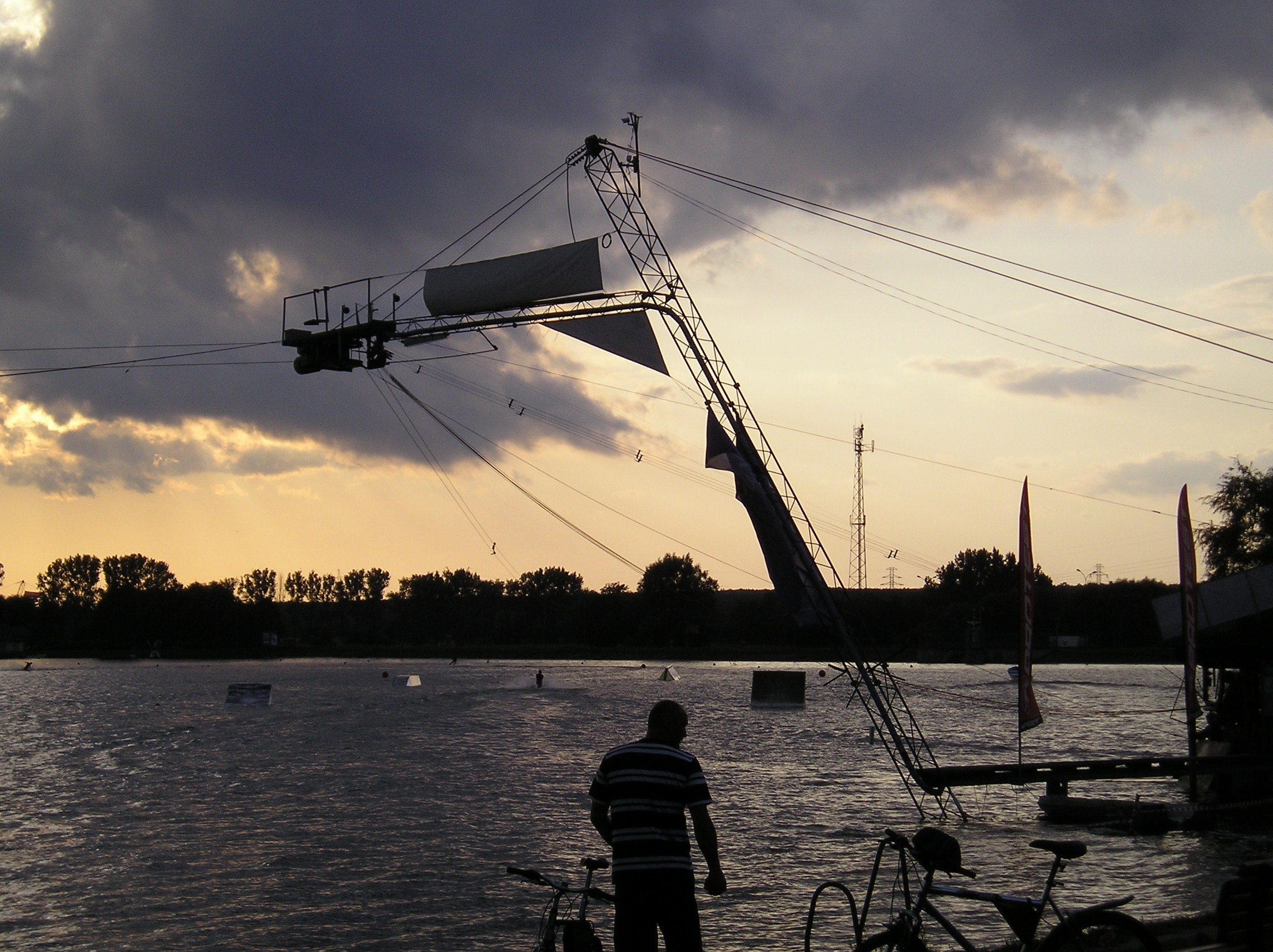 View at the water-sky lift at the Zemborzycki Artificial Lake in the holiday camp "Sunny Wrotków" at the sunset (2009)